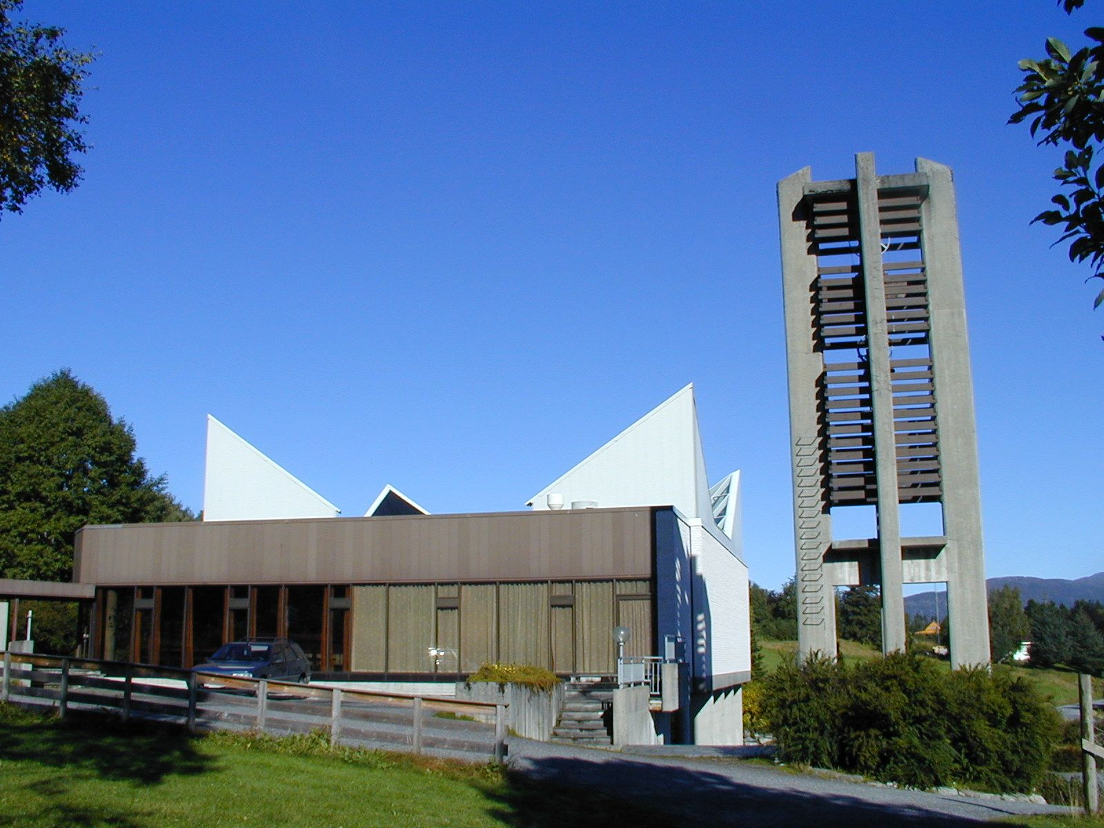 Ikornnes kirke sørfa. Foto: Max Ingar Mørk. Fra Riksantikvarens Kulturminnebilder.